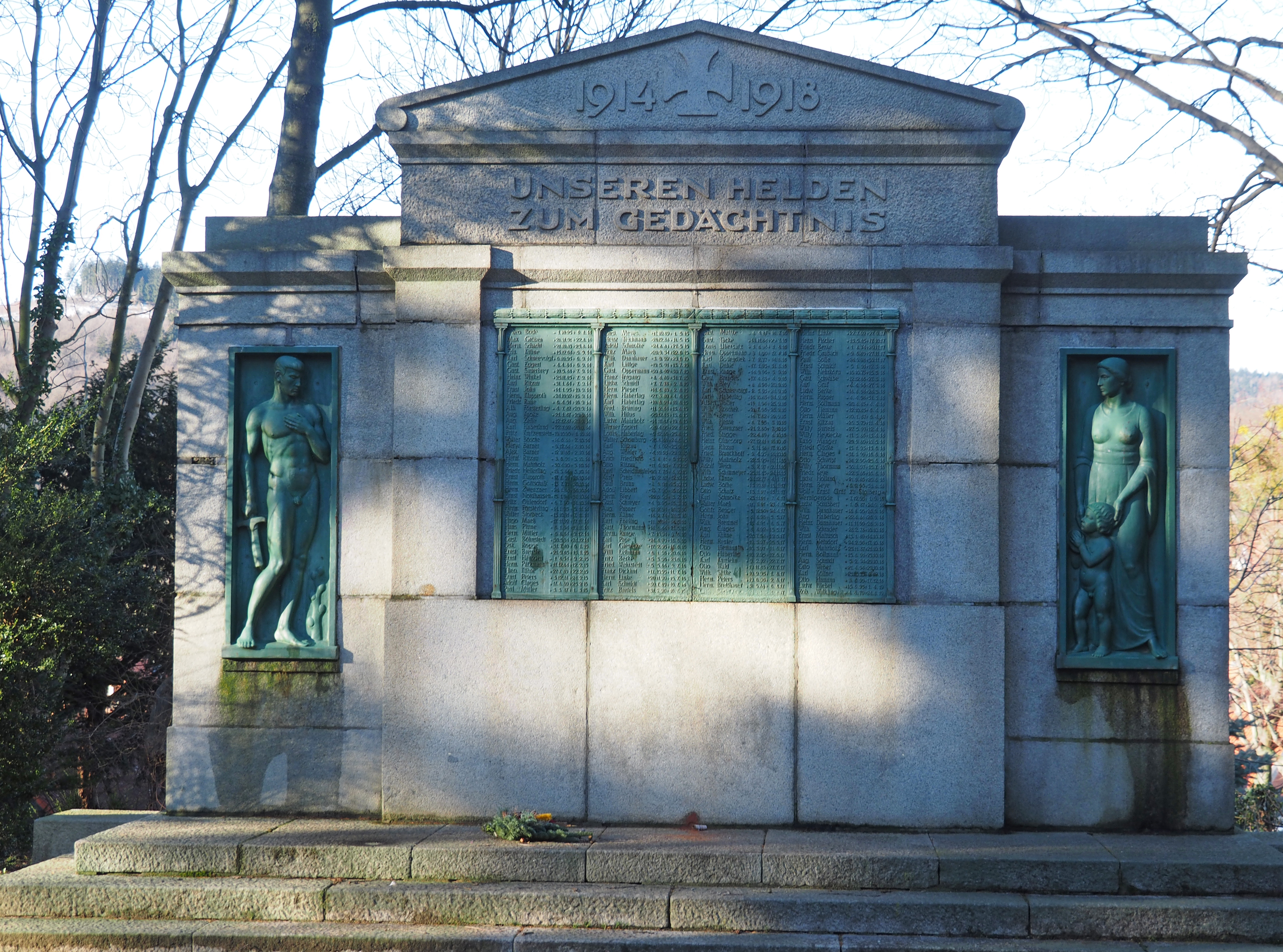 1914-18 war memorial in Ilsenburg (Harz)